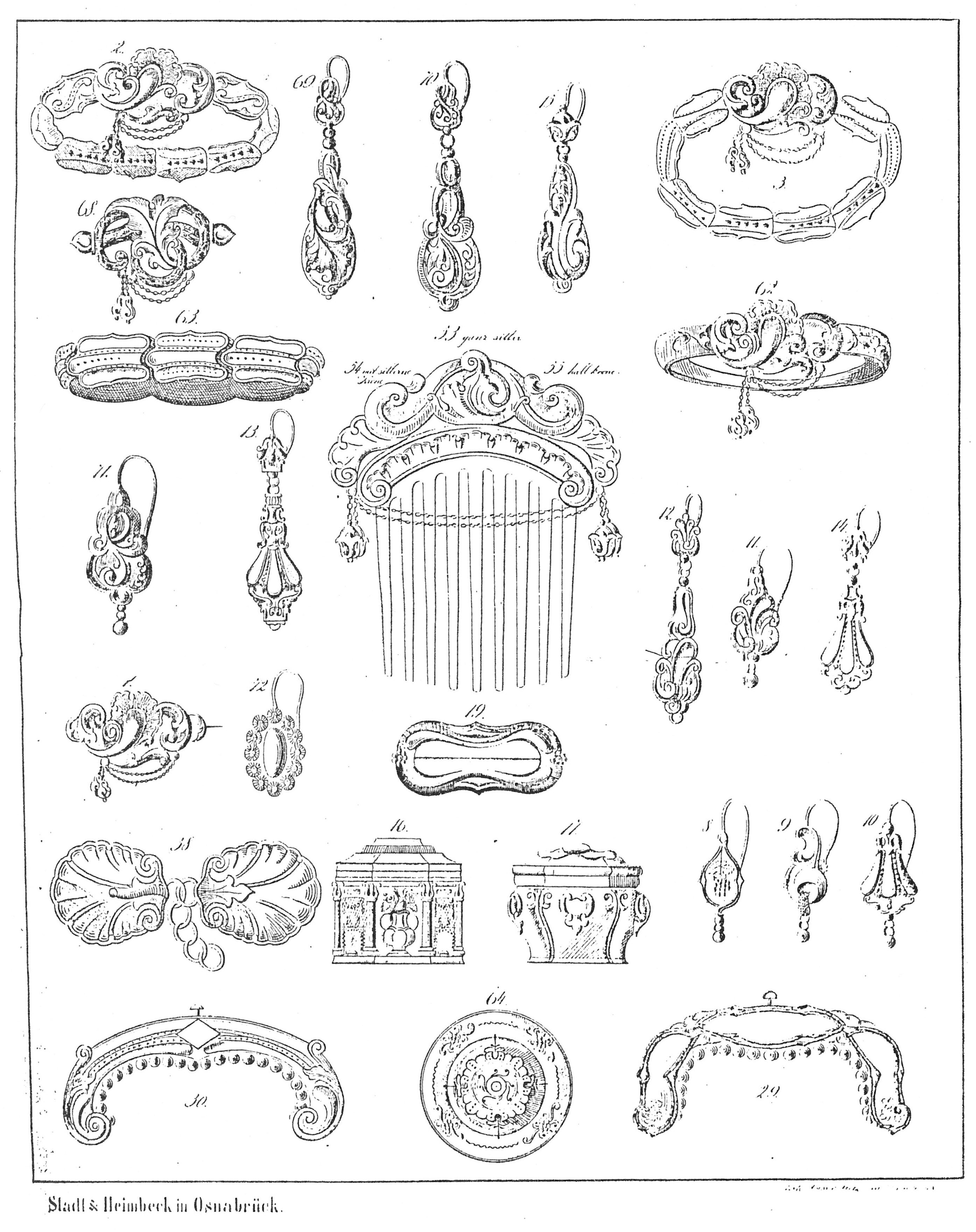 Earrings, offered by the factory "Stadt & Heimbeck", Osnabrück, Germany, about 1860